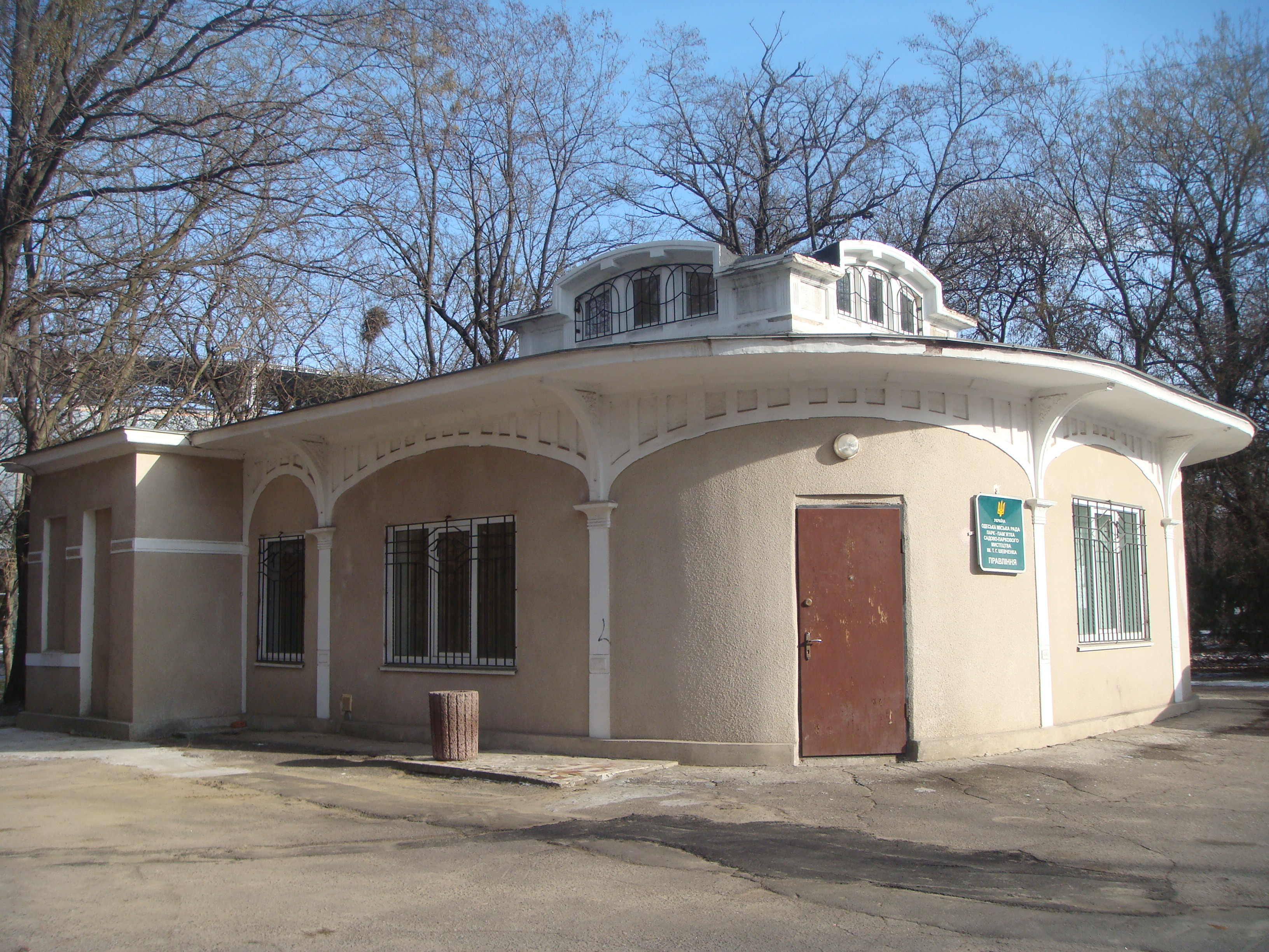 Station of Belgium Electric Tramways. Located in Alexandrovsky Park, Odessa. First line of electric tramways was constructed in Odessa in 1910, aimed to serve visitors of Odessa Exposition of Art & Industry.